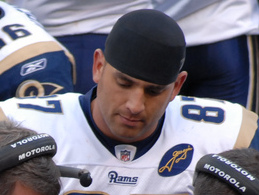 St. Louis Rams players talking to coaches, 2008.